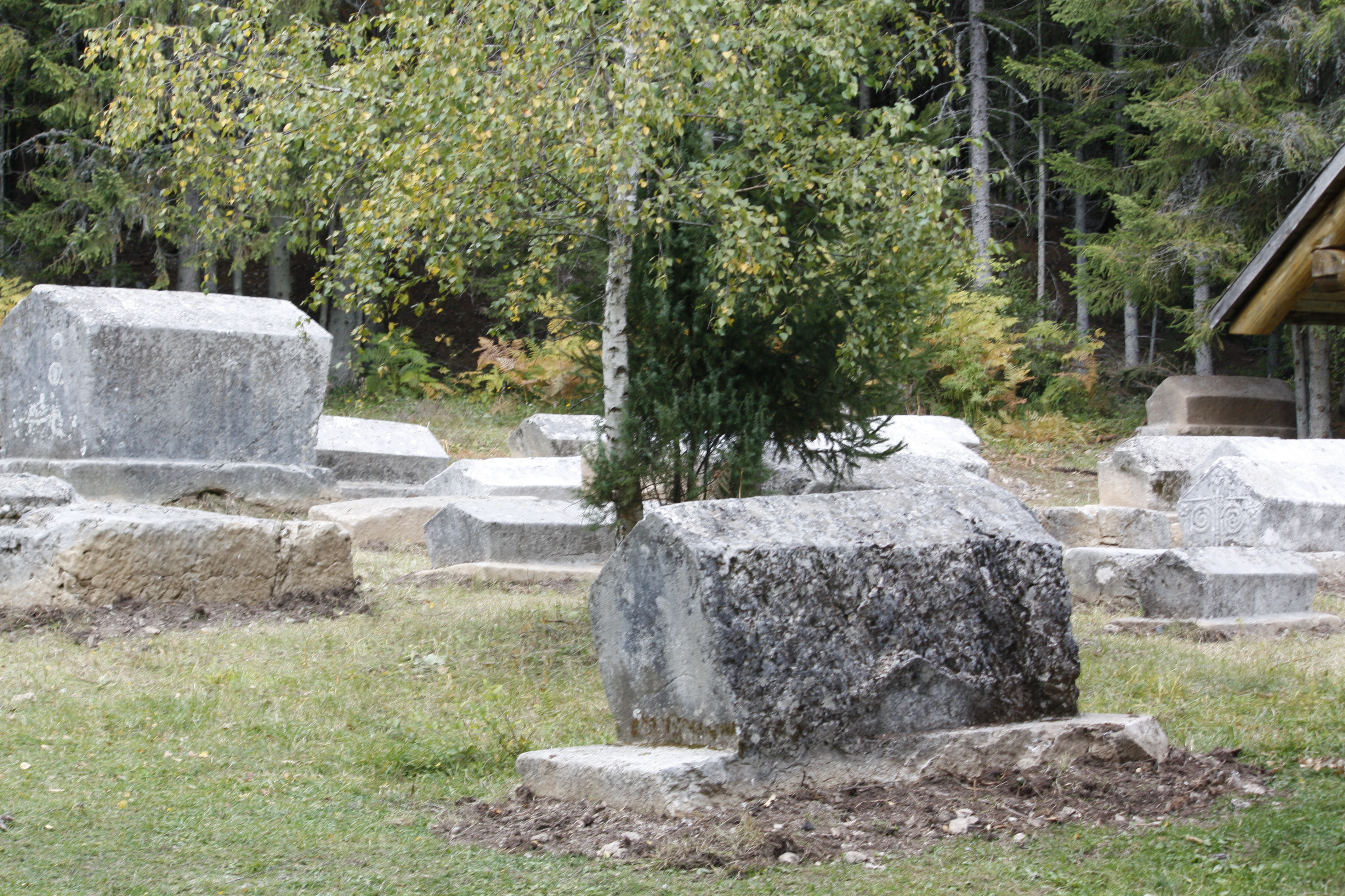 Bijambare tombstone